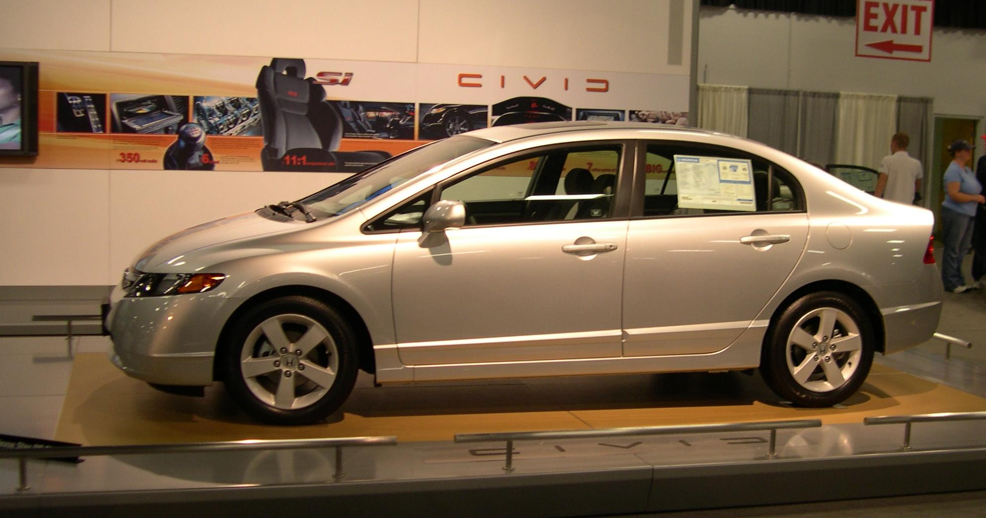 2006 Honda Civic sedan (FG)